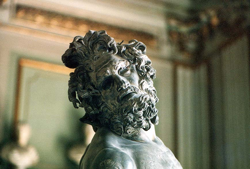 Aristeas and Papias of Aphrodisias, So-called “Old Centaur”: centaur teased by Eros (missing). Grey-black marble, Roman copy after an Hellenistic original. From the Villa Adriana near Tivoli, 1736. Now in the Musei Capitolini, accession number: MC 658